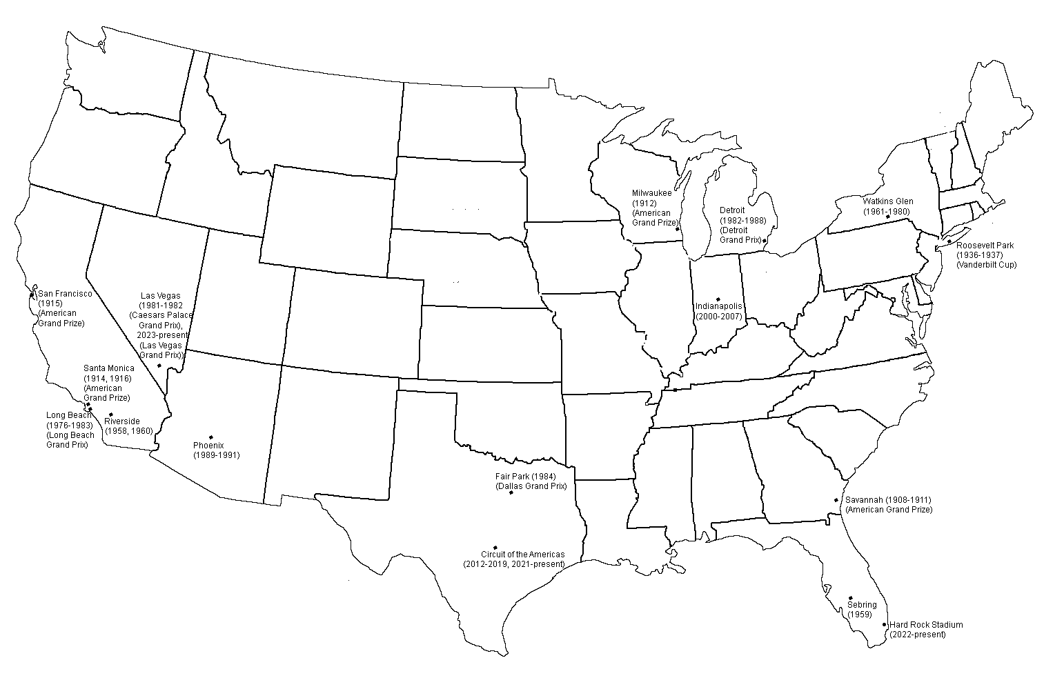 A location map of the locations of the Grand Prix held in the United States.